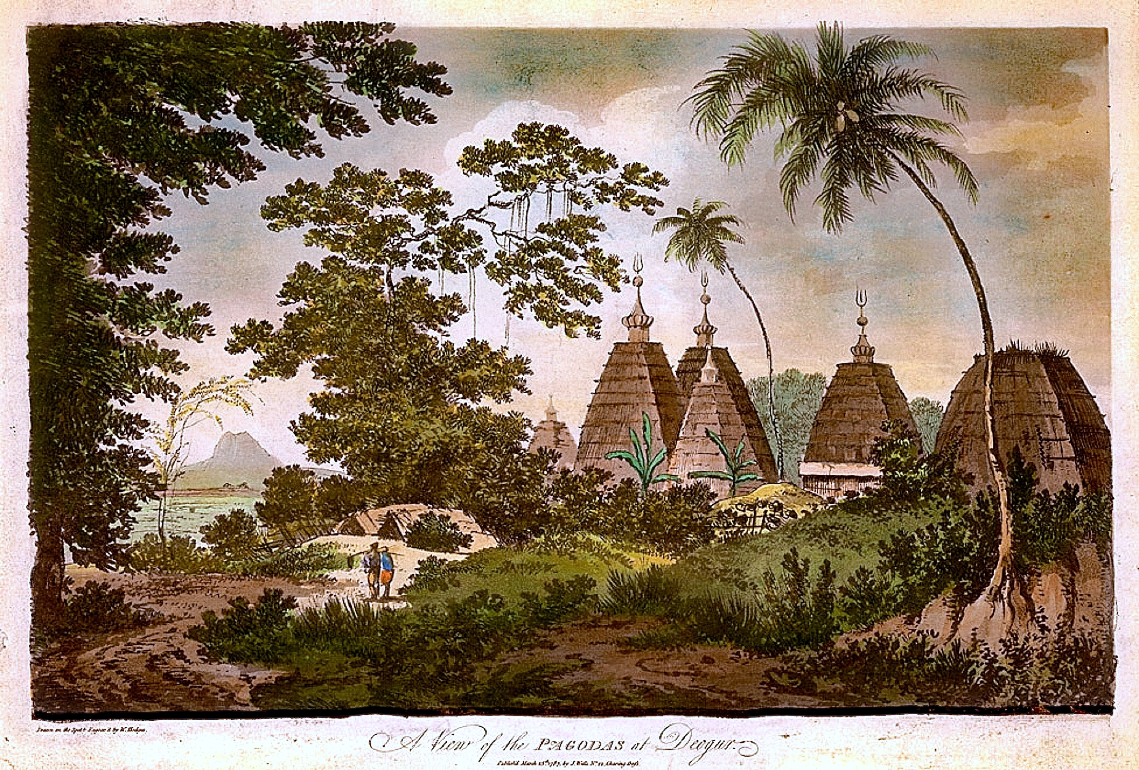 This is plate 22 from William Hodges' book 'Select Views in India'. Hodges saw the temples at Deogarh in 1782. He wrote that "the Pagodas at Deogur ... are in the earliest stage of Hindoo Buildings, simply Pyramids, by pieling stone on stone, without any light whatever within, but what comes from a small Door scarcely five feet high." He used this view together with the view of the 'Great Pagoda at Tanjore', to contrast what he saw as the early and the later stages of Indian architecture.